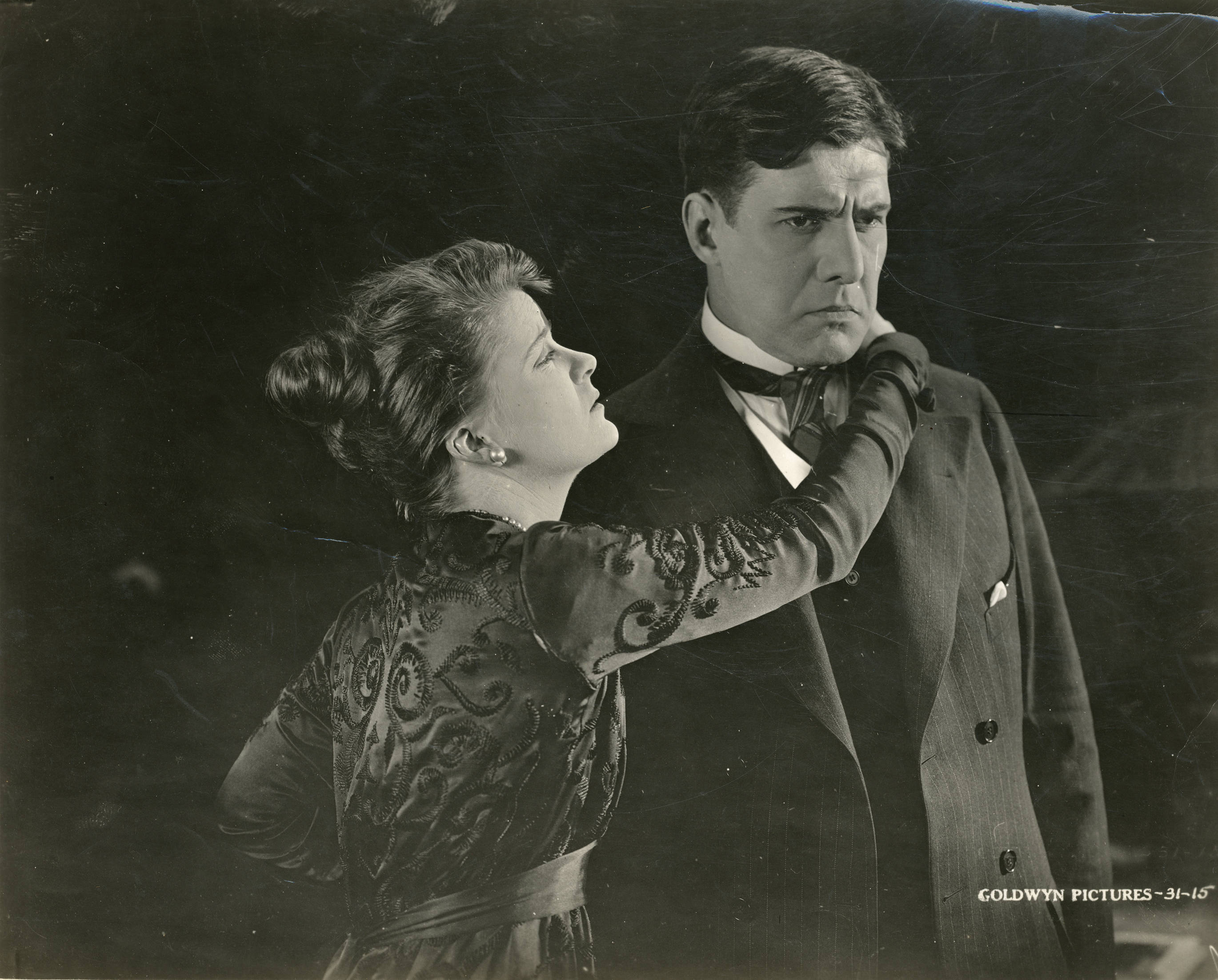 A scene from the American comedy drama film Hidden Fires with Mae Marsh. Subjects: motion pictures, actresses